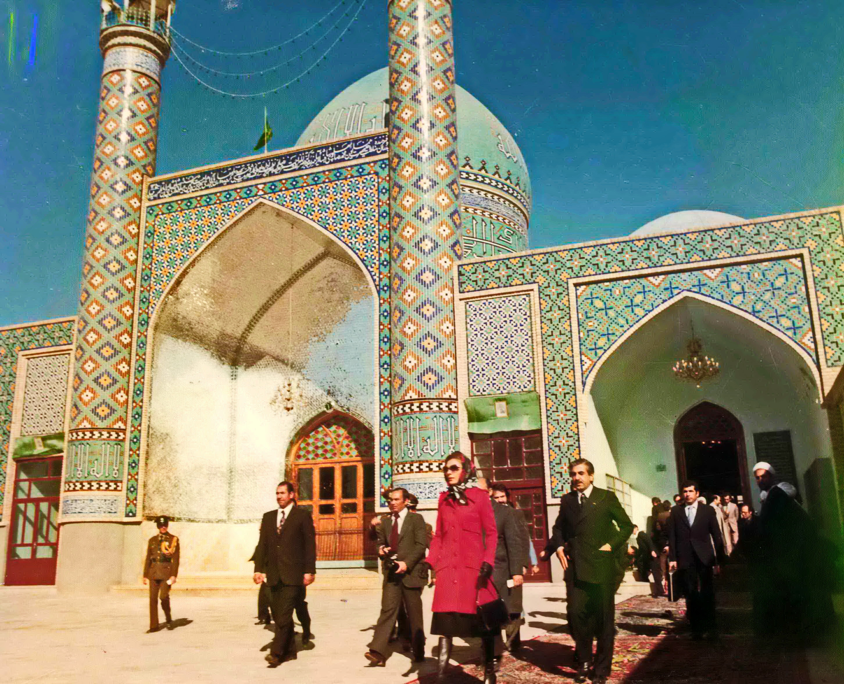 Farah Pahlavi in Al-Hamza Mosque of Kashmar, 1974/12/1